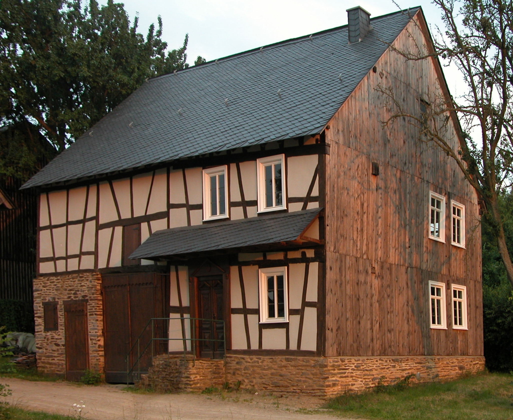 Open air museum Roscheider Hof, Germany, school-house from Würrich